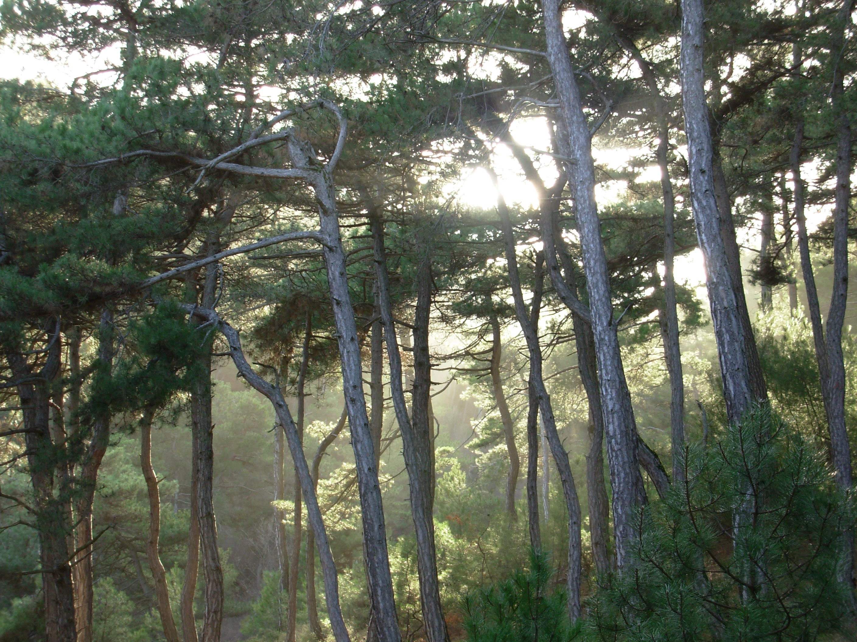 This is a photography of Natura 2000 protected area with ID GR1110002